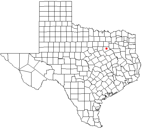 Rockett, Texas location map; created with the GIMP. Made by User:Acntx.